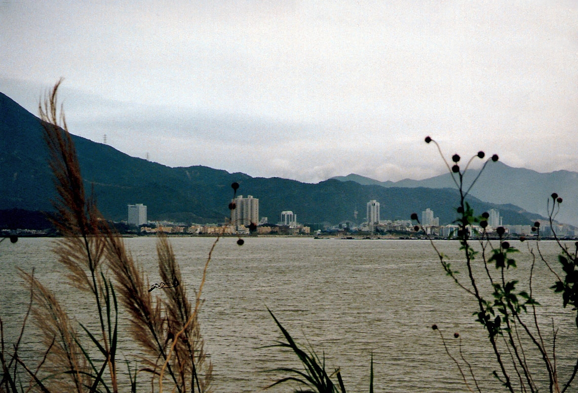 Four months prior to its handover to the People's Republic of China, Hong Kong still used to be a British colony and the view to Shenzhen was a view across the border. In 1979, Shenzhen's population merely amounted to about 30,000 people. Nowadays, Shenzhen is one of the fastest growing cities in the world with a population of more than 10 million people.